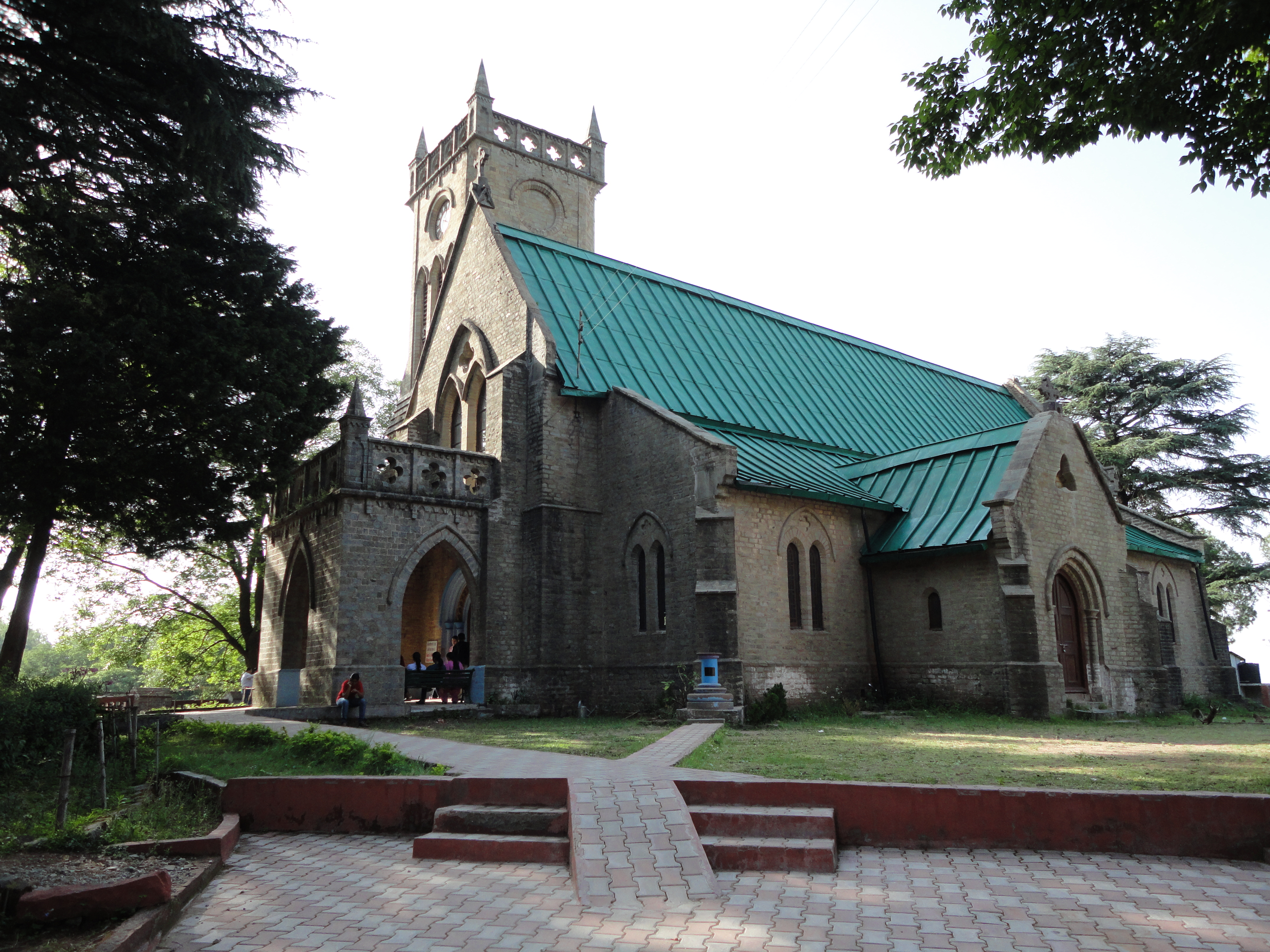 CHRIST CHURCH IS IN KASAULI IN SOLAN DISTRICT OF HIMACHAL PRADESH STATE IN INDIA